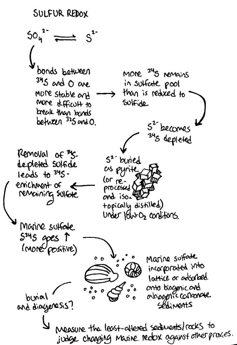 This wordy flow chart tries to explain simply how/why sulfur isotope fractionation has acted on seawater sulfate through geologic time.